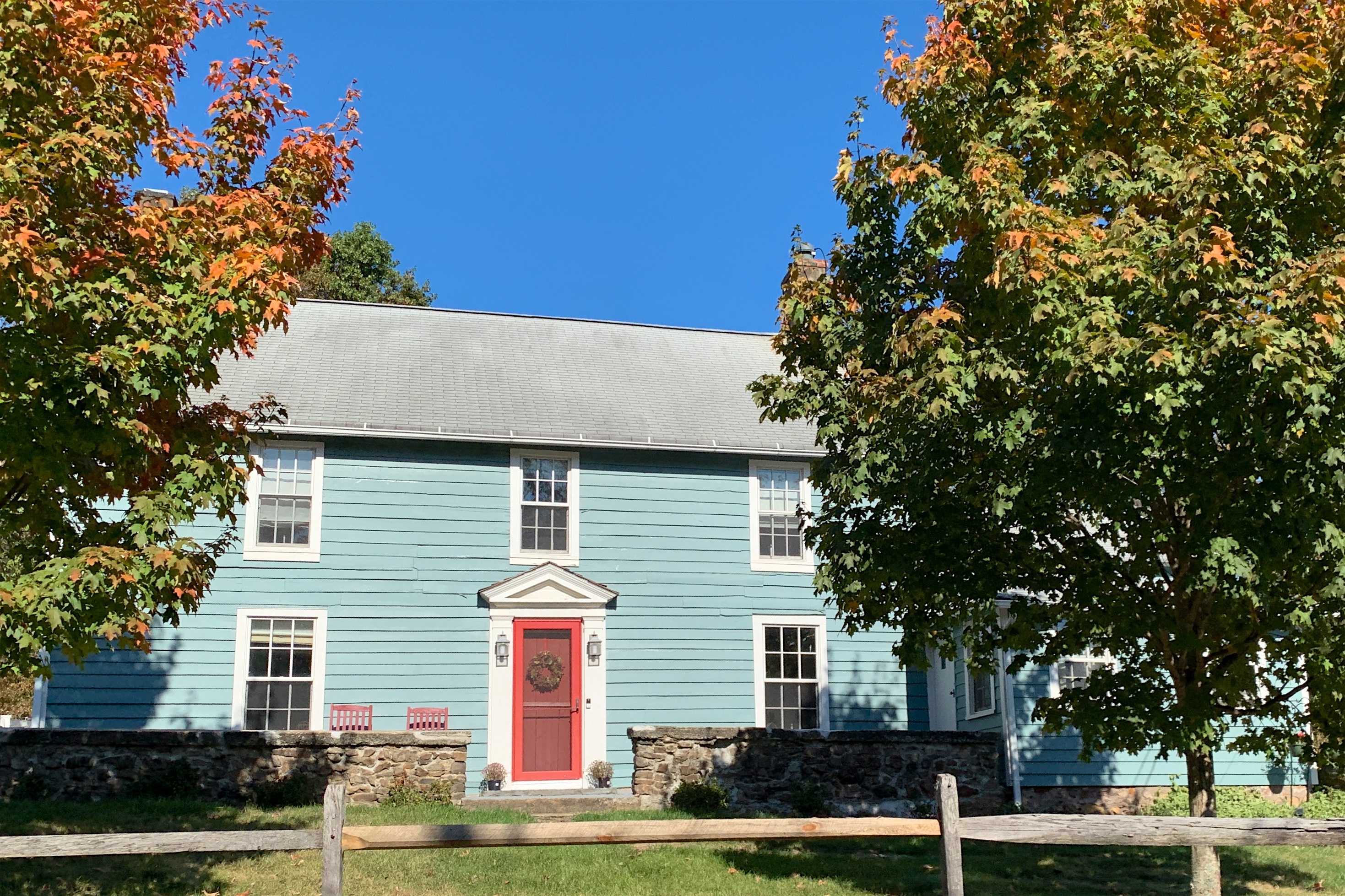 The historic Jacob Vosseller House in Bridgewater Township, New Jersey. Built circa 1753 date QS:P,+1753-00-00T00:00:00Z/9,P1480,Q5727902.